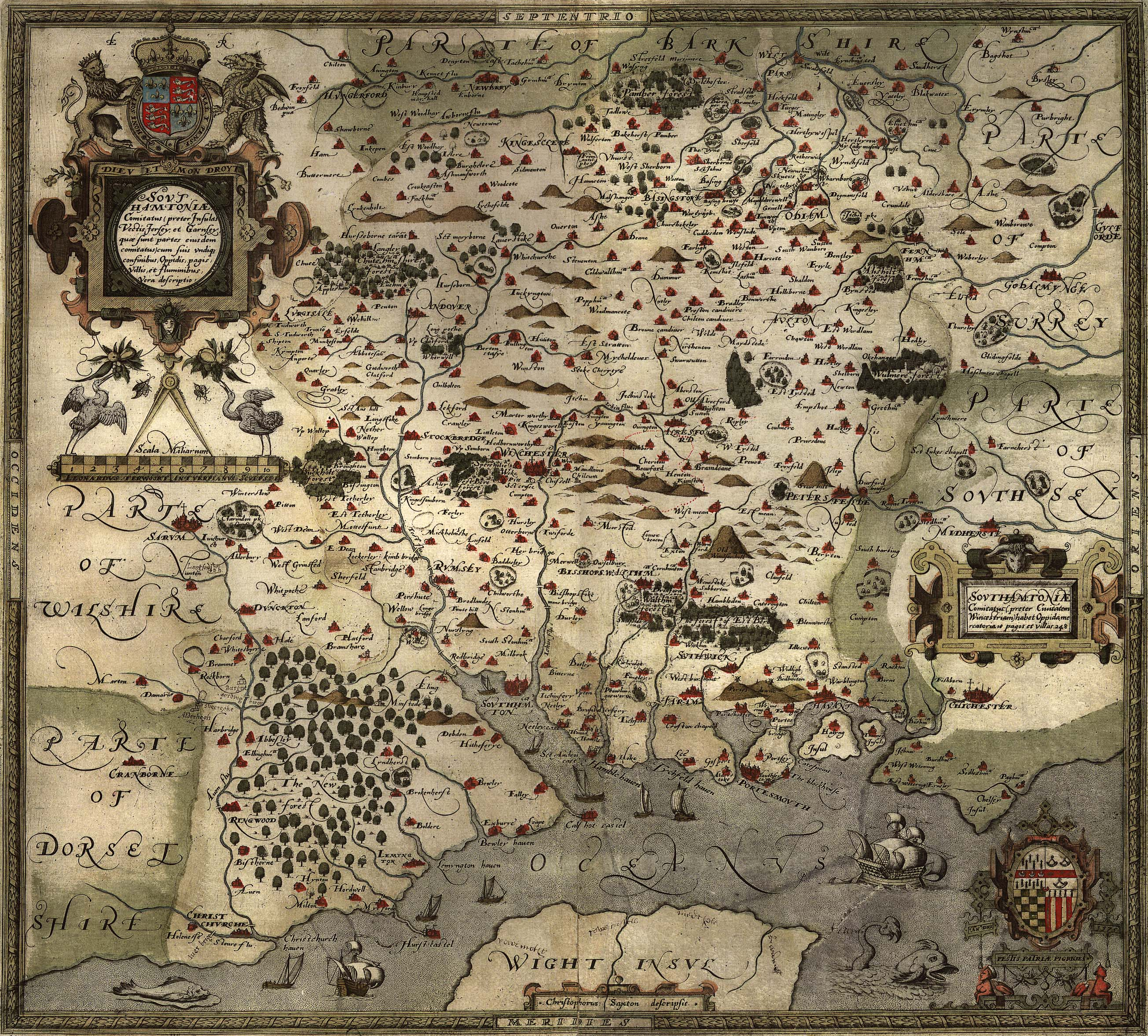 Map, hand coloured copper plate engraving, Southamtoniae, ie Hampshire, scale about 4 miles to 1 inch, engraved by Leonard Terwoort, Antwerp, Netherlands, published by Christopher Saxton, map maker, London? about 1575.